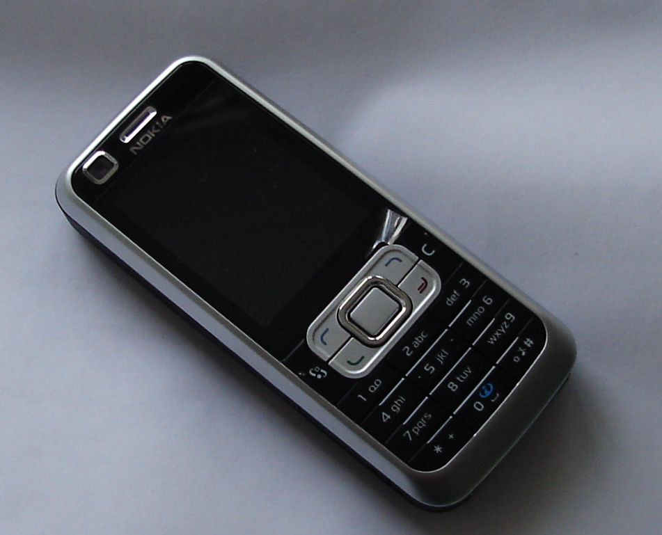 Nokia 6120 Classic